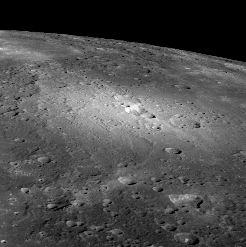 Oblique view of Nathair Facula (bright area at center) on Mercury. Copland crater is in the upper left at the horizon, and Neidr Facula is in the right foreground. MESSENGER Wide Angle Camera image. Emission Angle: 71.4 Incidence Angle: 70.2 Latitude: 36.5 Longitude: 62.7 Phase Angle: 30.1